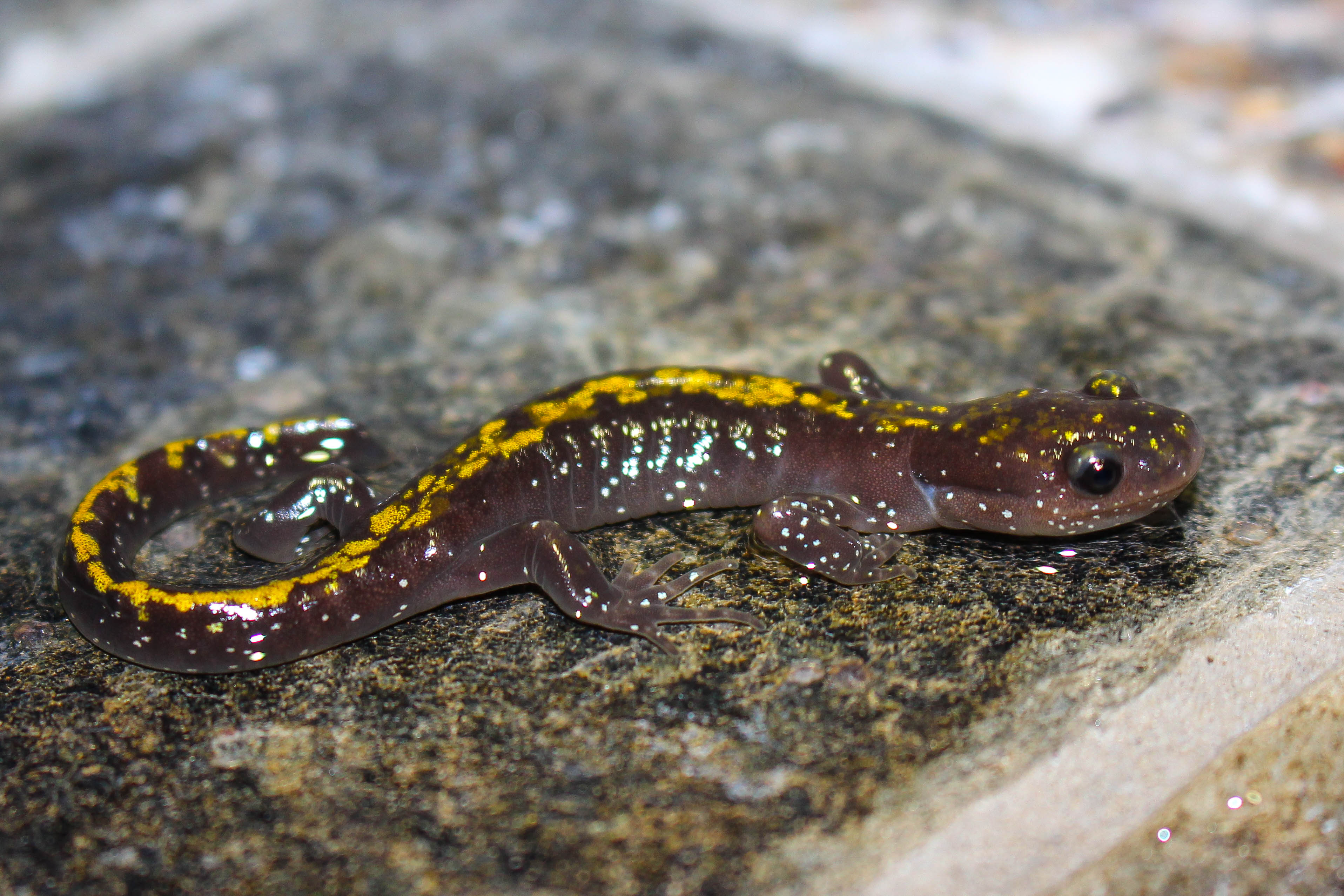 A Southern long-toed salamander (Ambystoma macrodactylum sigillatum) comes out onto the road after heavy rain. Plumas County, CA.